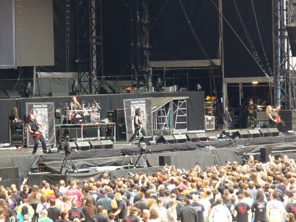 Machine Head Live at Wembley